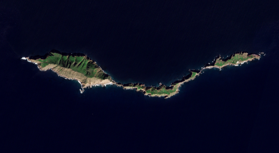 Date: 2019-02-11 Sensor: MSI on Sentinel-2B Resolution: 10m RGB Composites: True color, Band 4-3-2